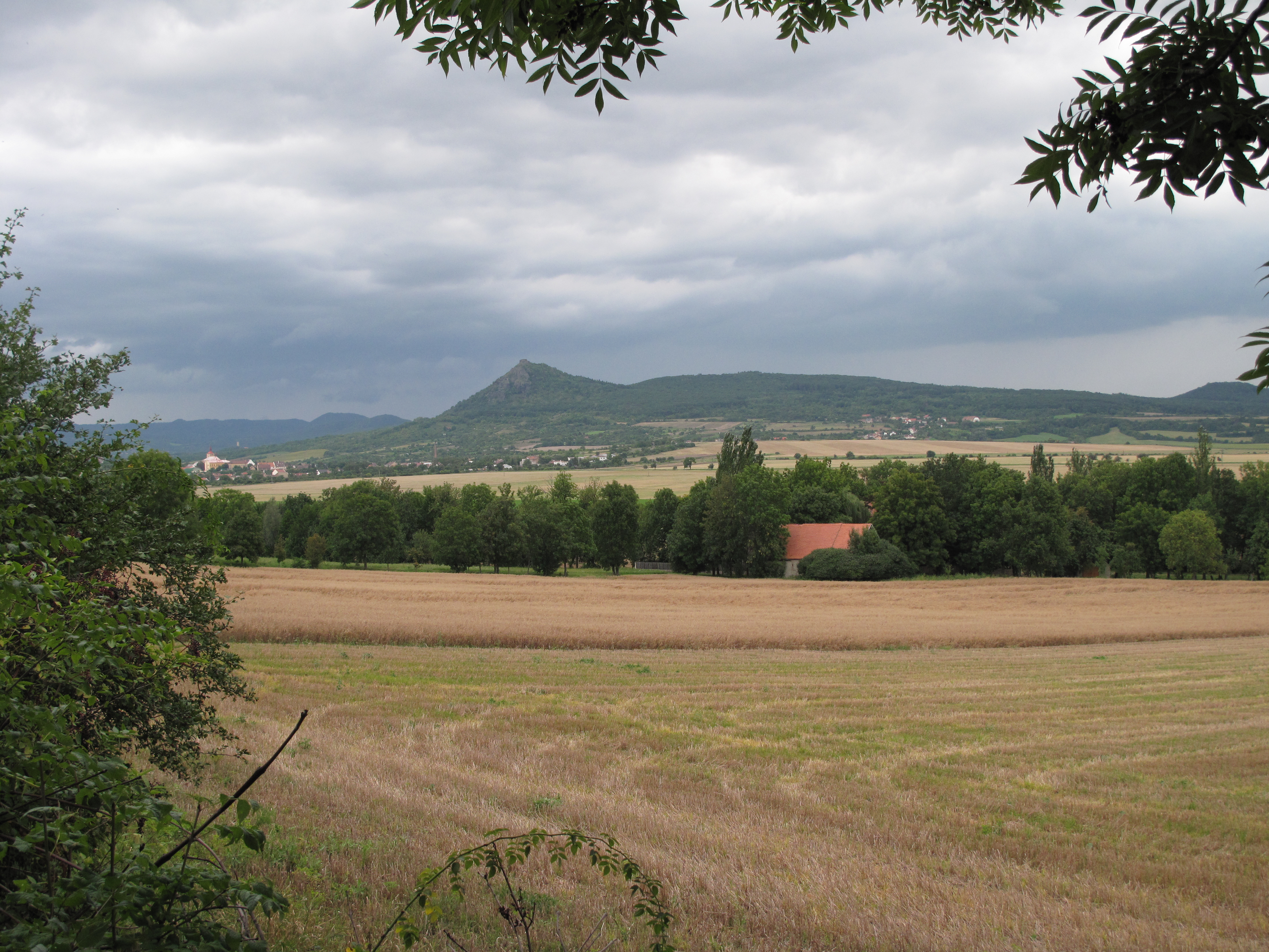 View to Lucký mlýn (Lucký Mill) from the south on Modla Stream, Litoměřice District, Czech Republic.